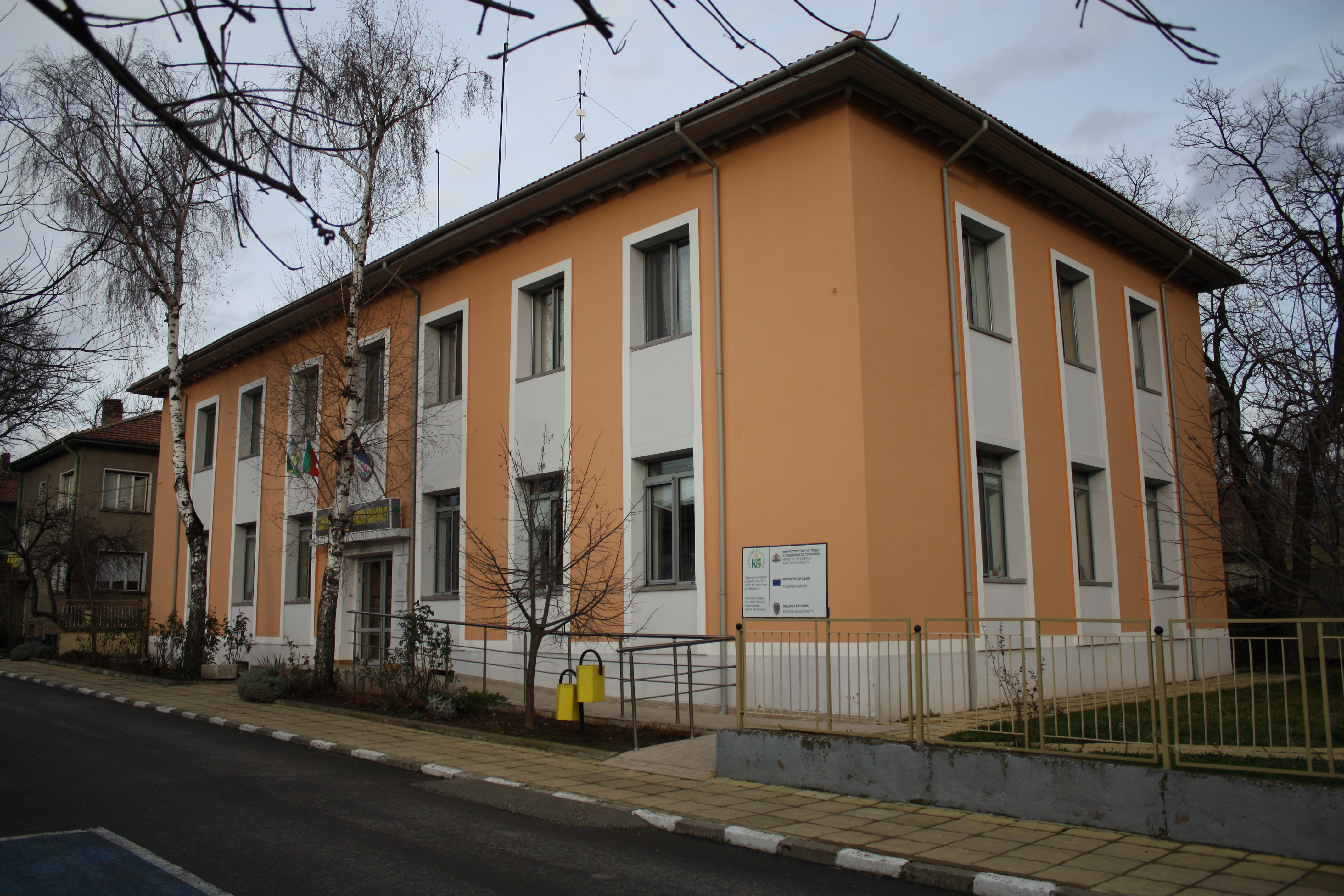 Breznik mnicipality hall, Bulgaria